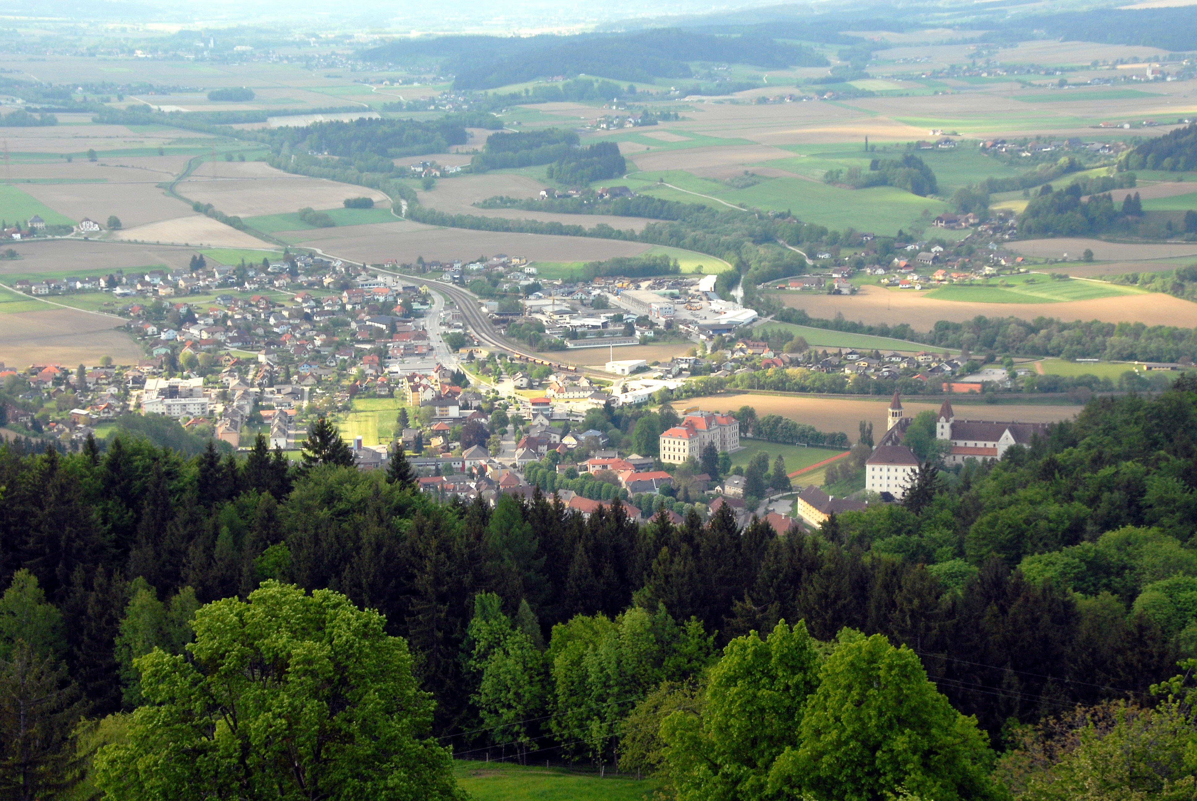 View from the castle-ruin Rabenstein at Saint Paul im Lavanttal, district Wolfsberg, Carinthia, Austria